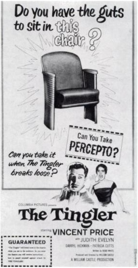 Description: Low-resolution reproduction of ad for the film The Tingler (1959), produced and directed by William Castle, featuring star Vincent Price.